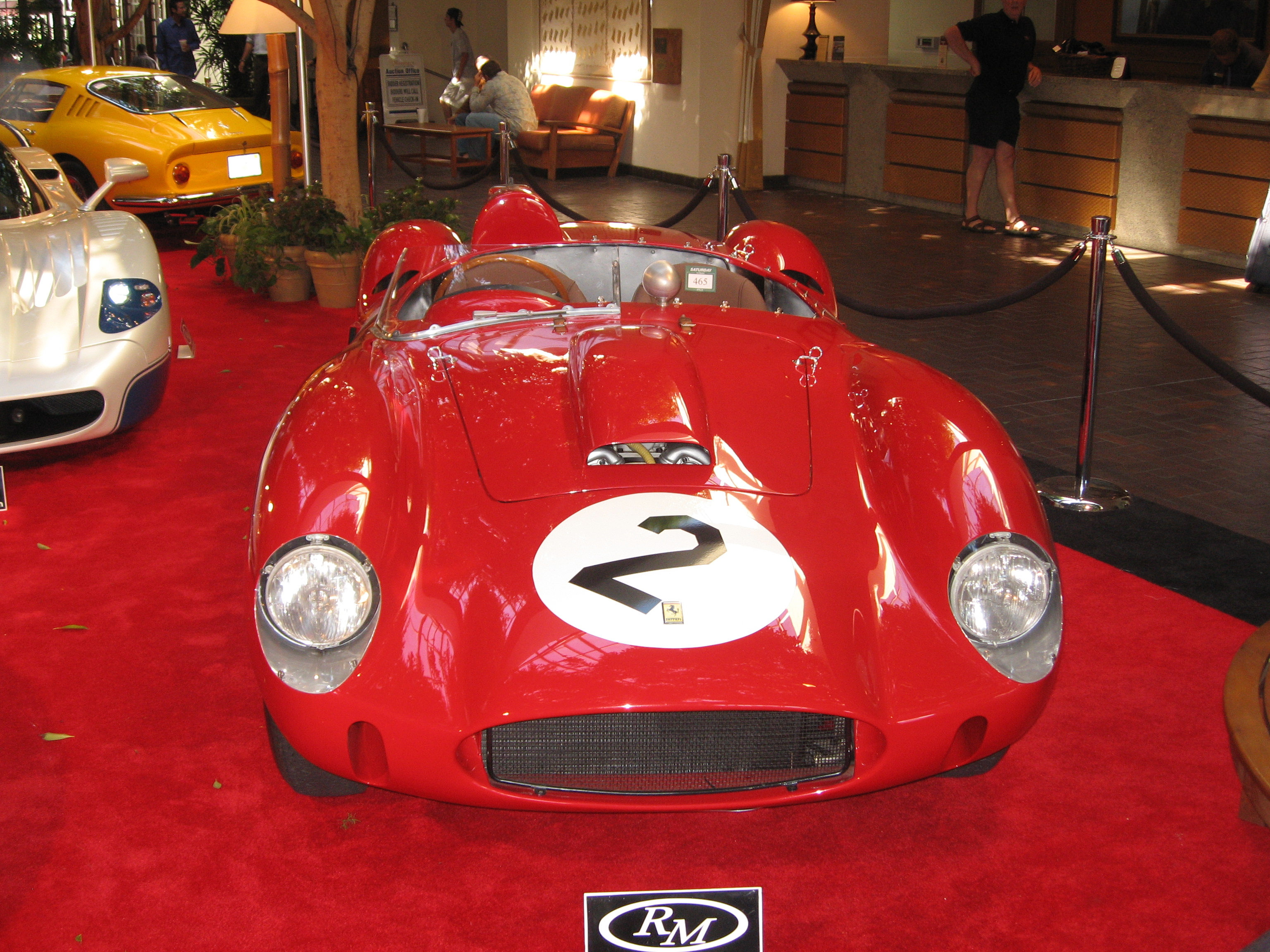 This car sold at auction for $5,100,000